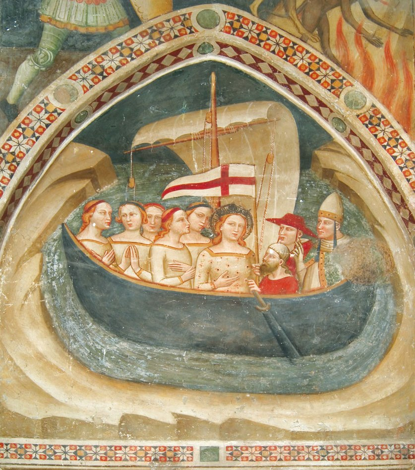 Allegretto Nuzi, Viaggio di Sant'Orsola e di San Ciriaco Papa, Fabriano, fresco, 1365, chiesa di San Domenico